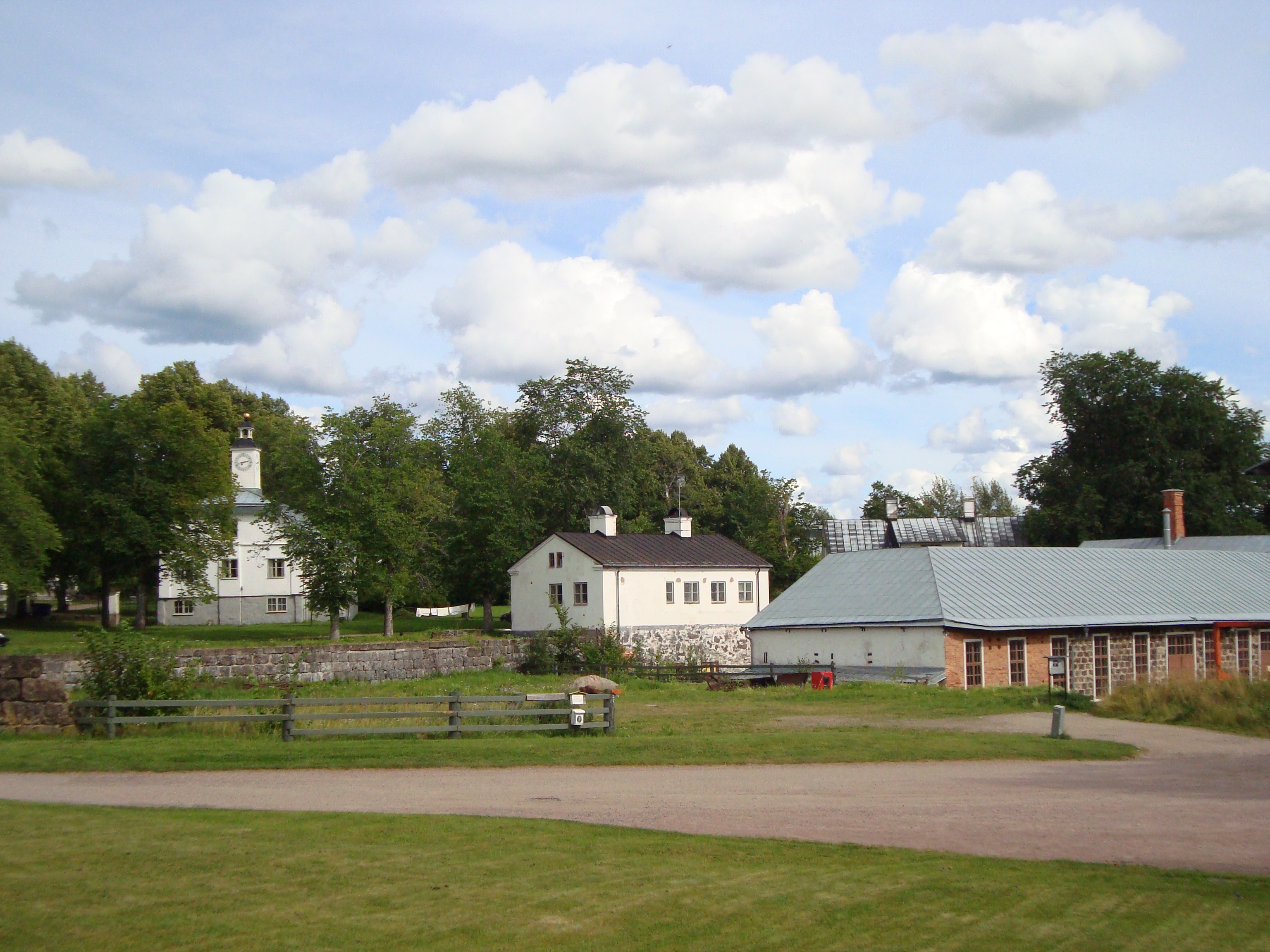 Stjärnsund former iron works. To the left the old fire station (the newer can be found far out to the left of the picture, nowadays Stjärnsund has no fire station at all). Hedemora Municipality, Sweden